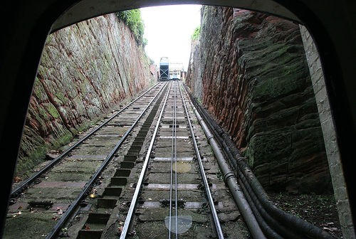 Taken by Nick Fraser in 2005. Bridgnorth Funicular Railway.